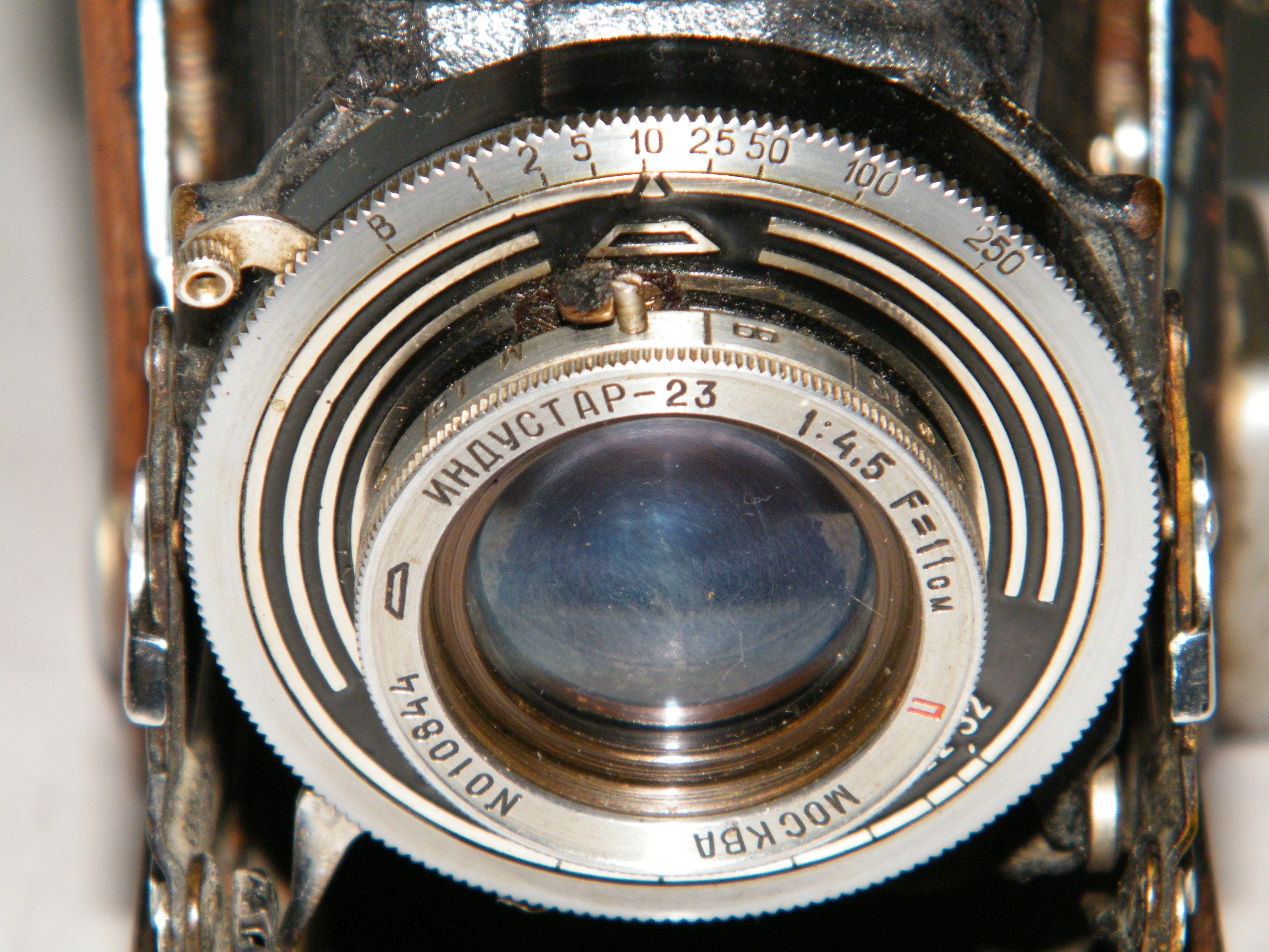 MOSKVA-1 KMZ camera from Evgeniy Okolov collection